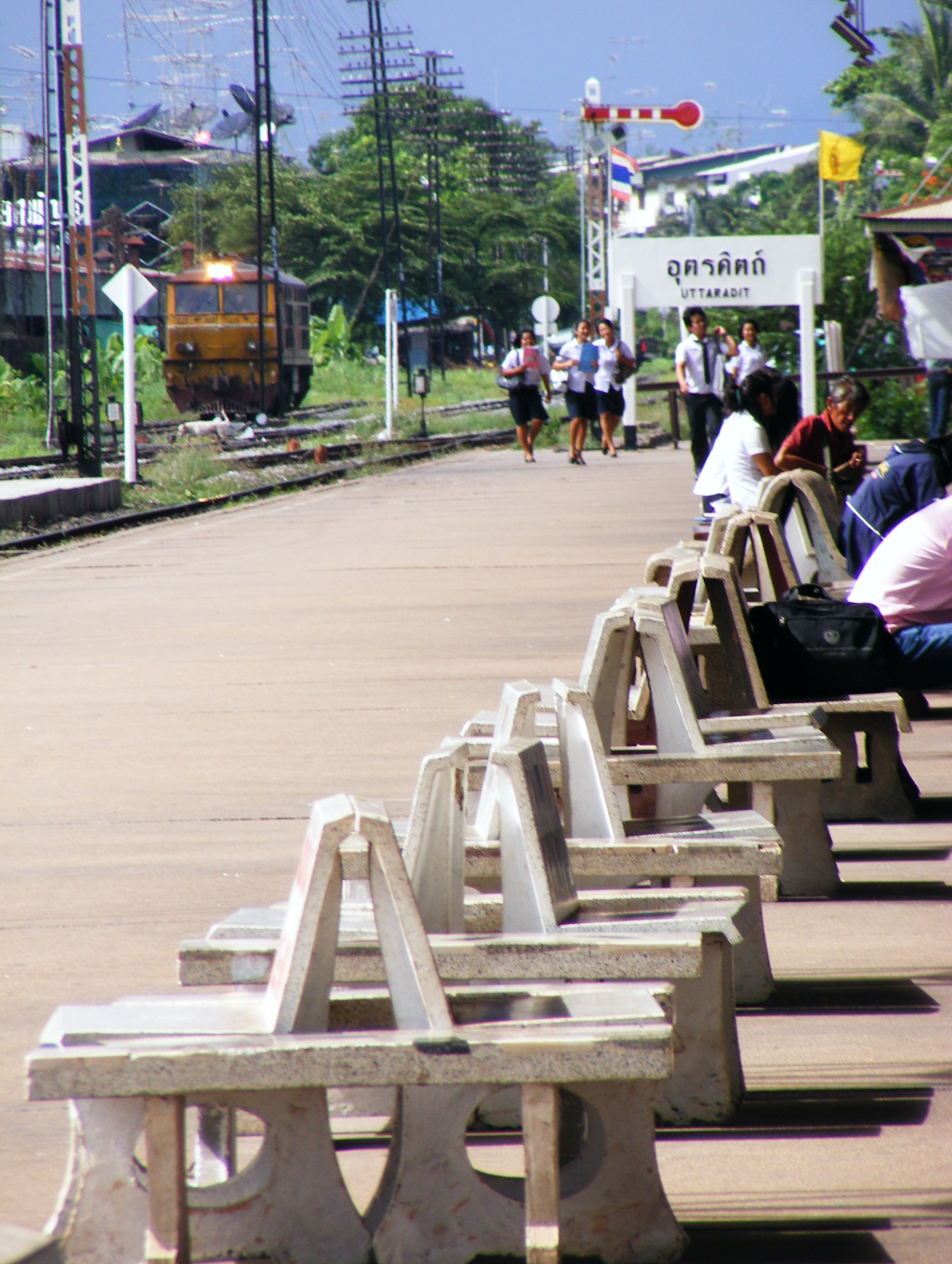 railroad Uttaradit station, Mueang Uttaradit, Uttaradit Province, Thailand.